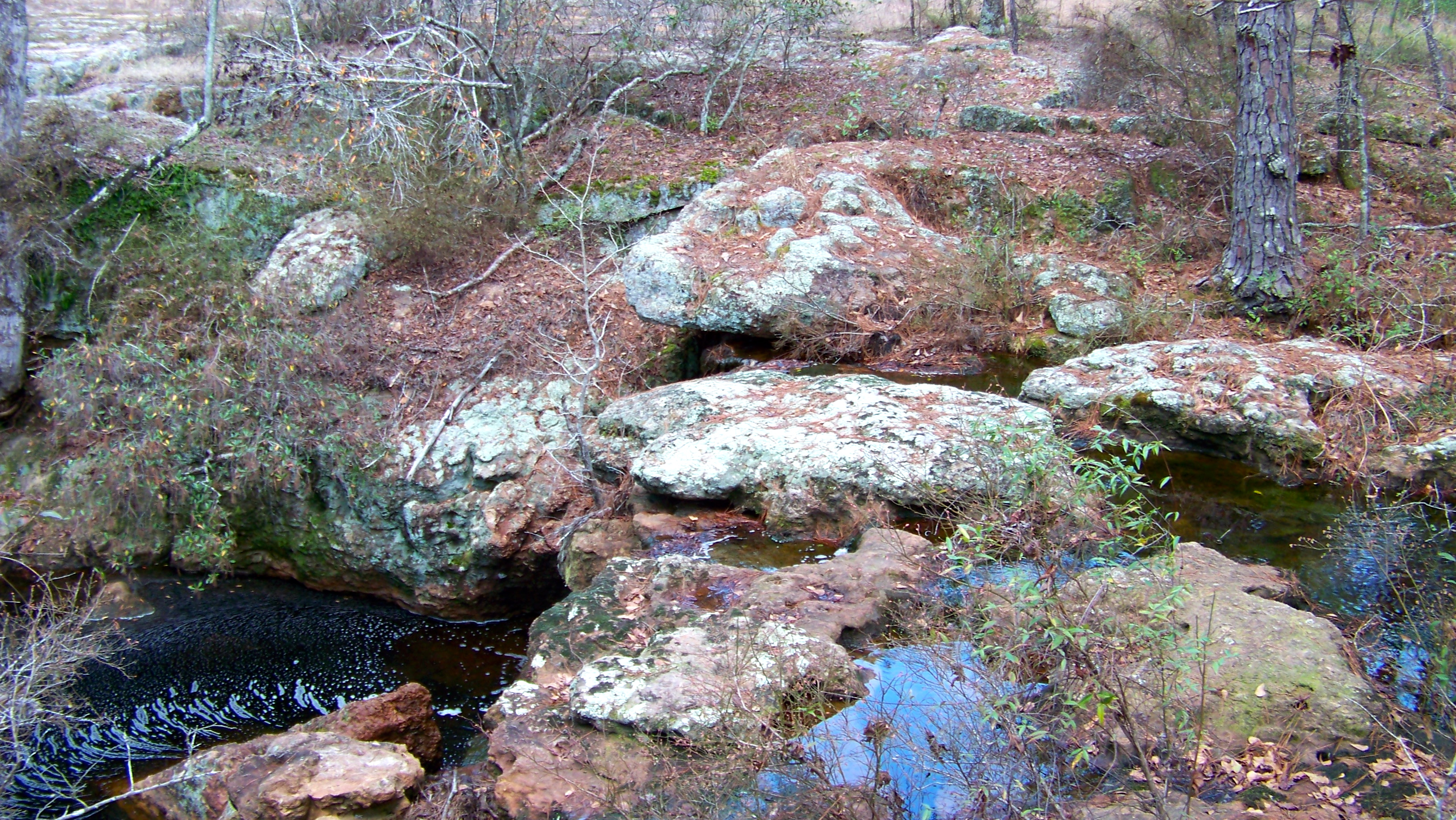 This is a picture of the Broxton Rocks in Broxton, Georgia.